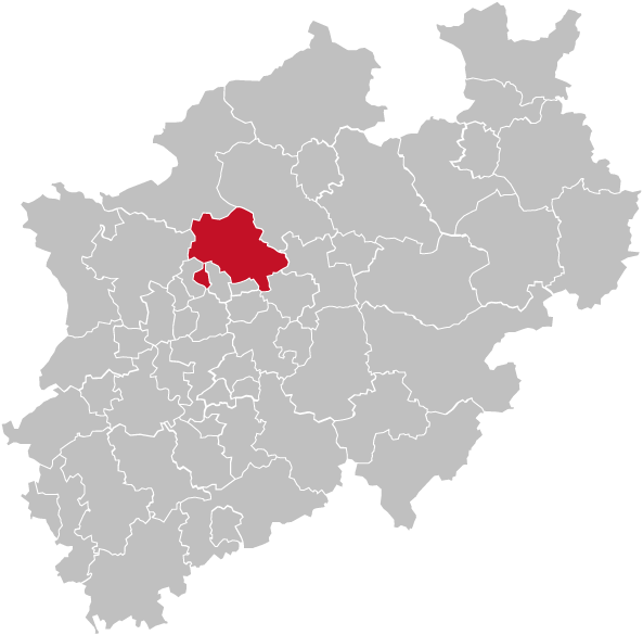 Map of Kreis Recklinghausen, a District of Northrhine-Westphalia (NRW), Germany. Red/Grey colors match the color scheme of Germany maps and information boxes in German Wikipedia. Kreis is highlighted in red. Former version of map was based upon [:Image:North rhine w template.png] that displayed some districts in the Cologne/Bonn area not correctly.This new version is based upon template